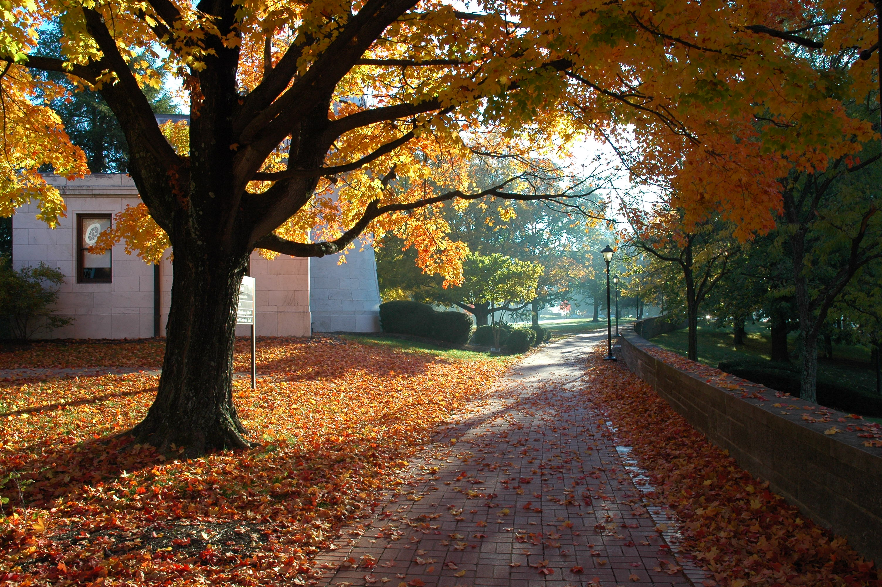 A view of Chapel Walk on the campus of Denison University, Granville, Ohio.